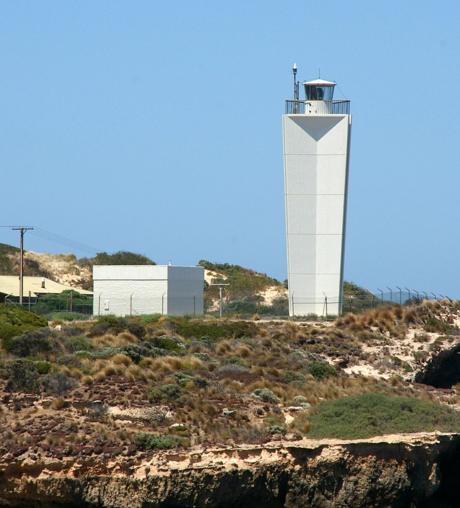 Lighthouse, Robe. Photo by me on 1/12/2006.